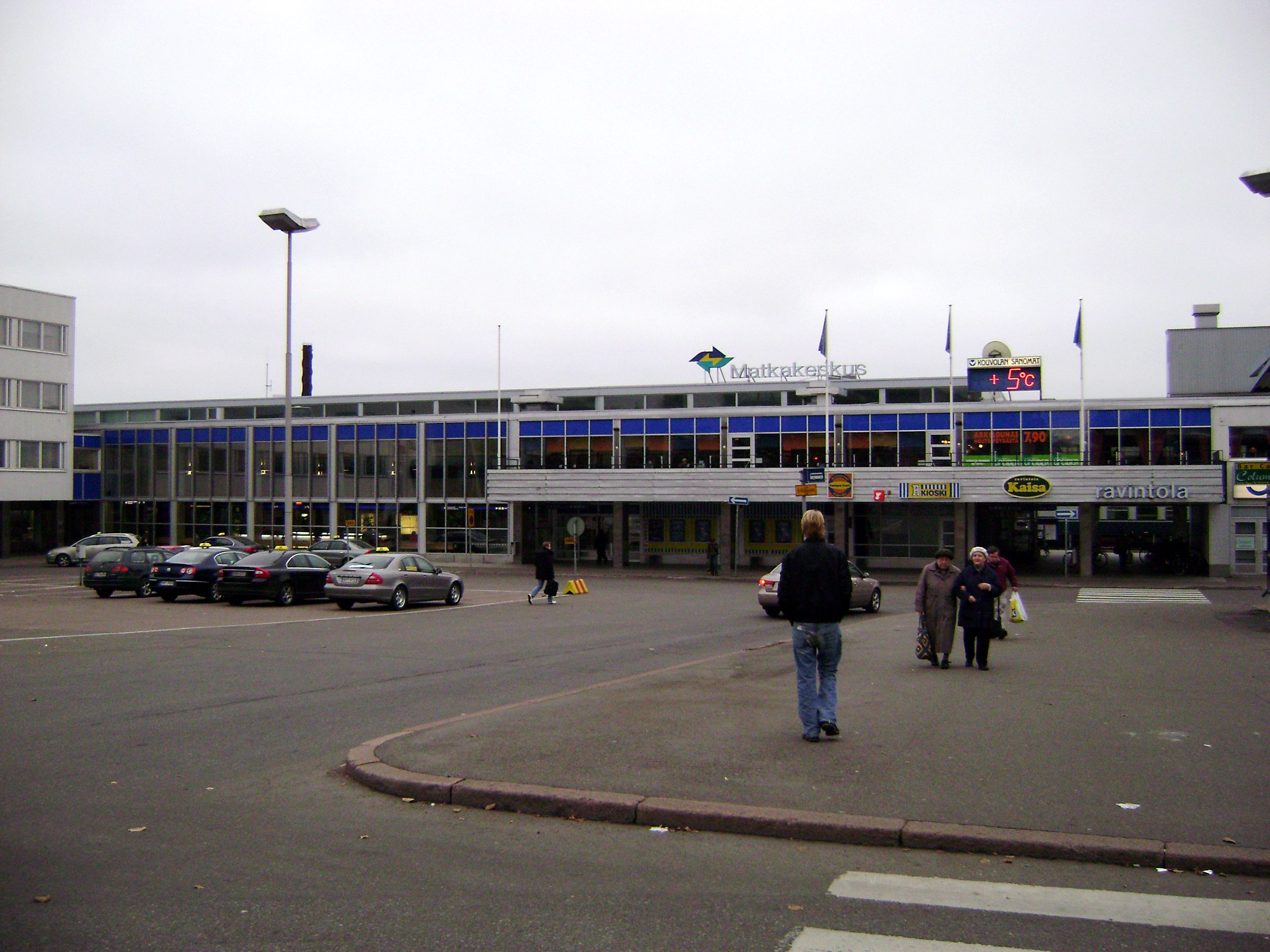 Kouvola bus and railway station